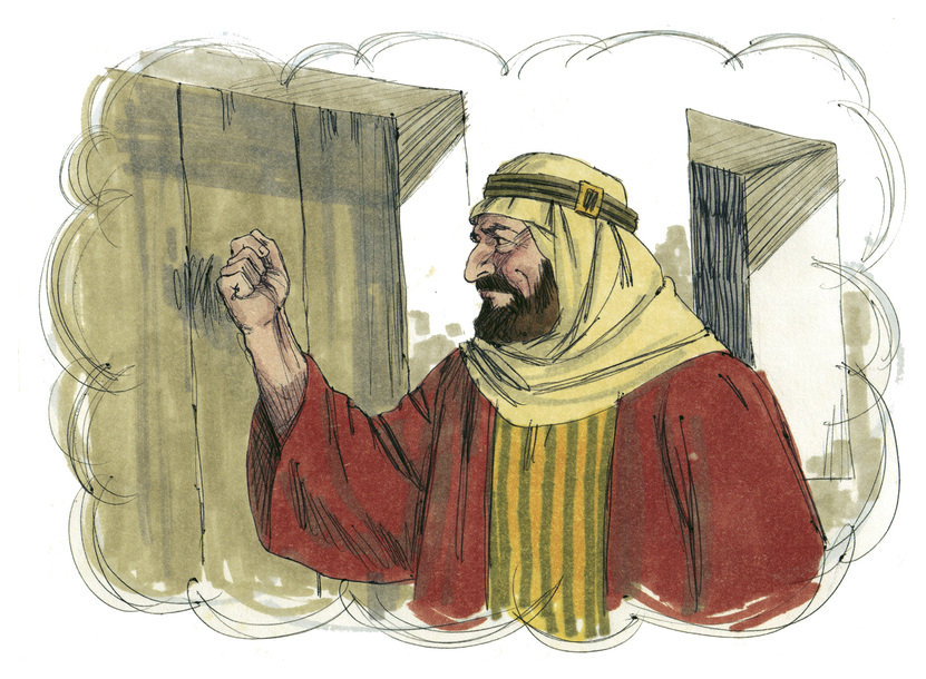 Biblical illustration of Gospel of Matthew Chapter 5